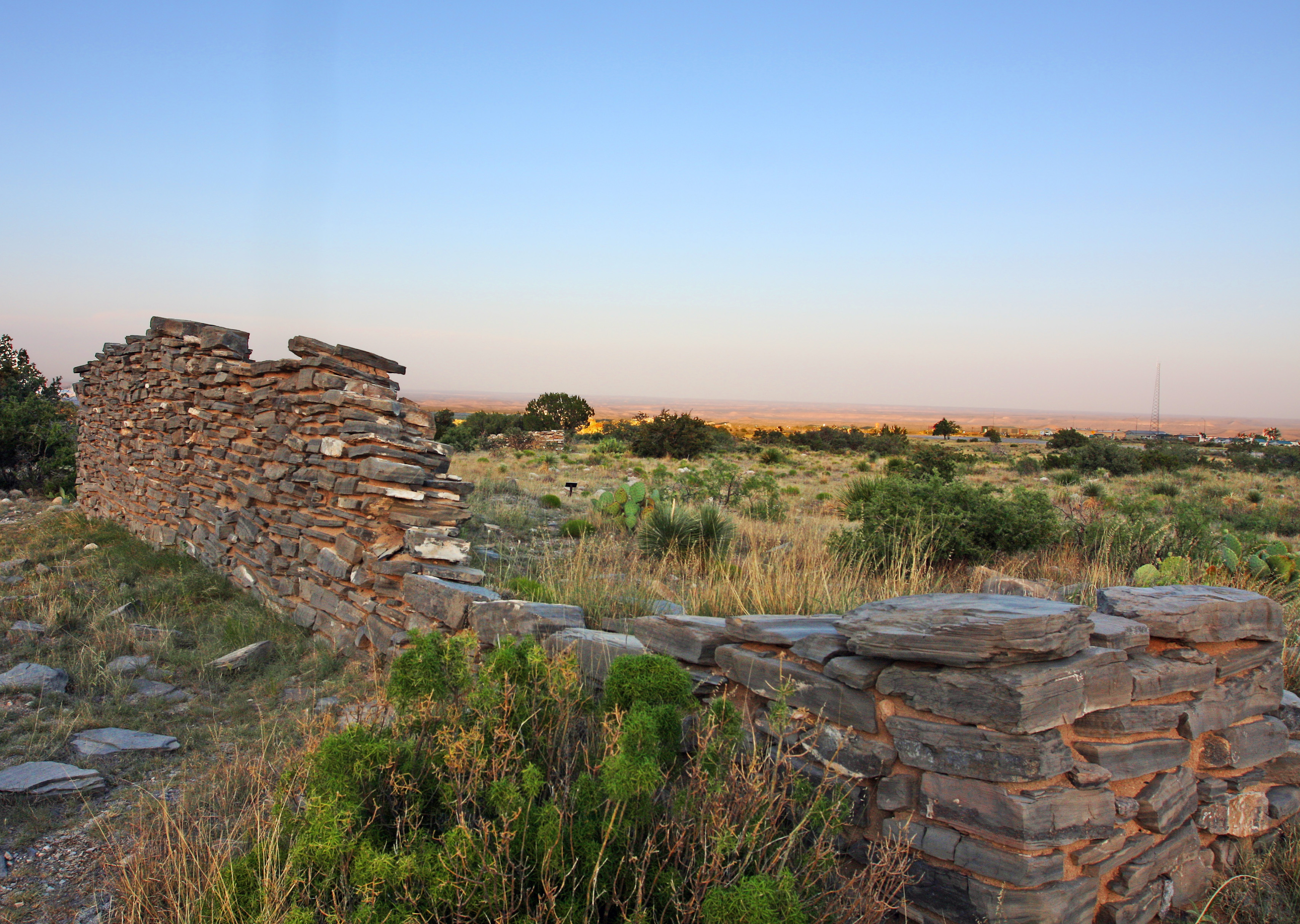 Pinery Stage Stop in Texas. It ceased to be a stage stop in 1859. This is the only ruin of a company-built Butterfield Stage stop that is left in the United States.